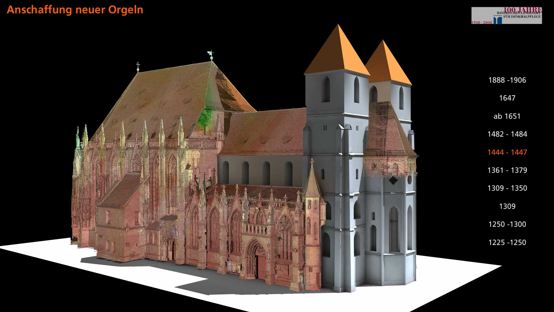 Historical Restoration showing the late Gothic East Choir addition, Saint Sebald Church. This historic restoration shows the Gothic enhancement on the East Choir. During 1361-1450, the old Romanesque East Choir was completely reconstructed and transformed into a Gothic choir design. This view is a combination of 3D digital historic restoration and a point cloud from the laser scan of the current condition of the Church, seen here in reddish-brown